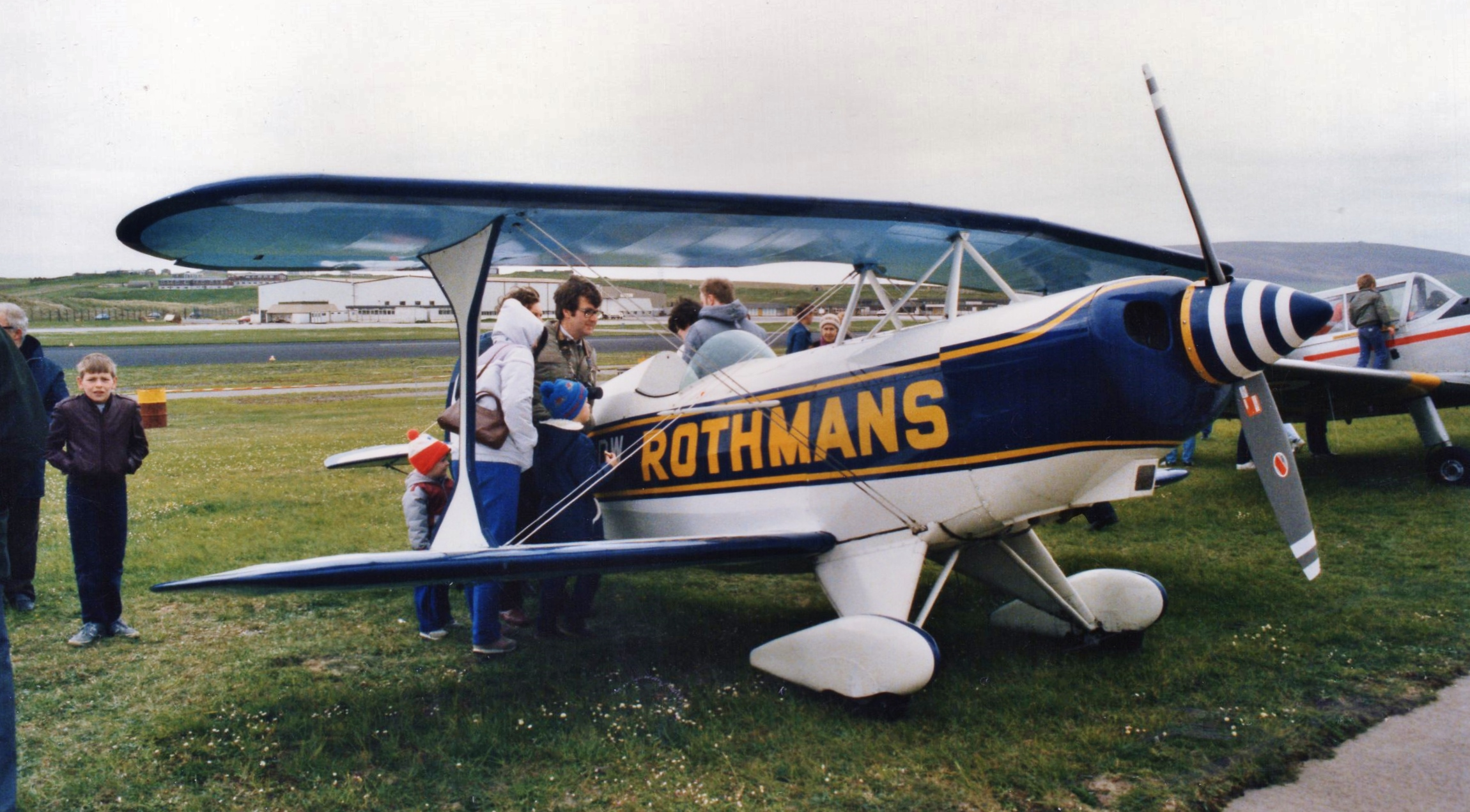 On display at Sumburgh.